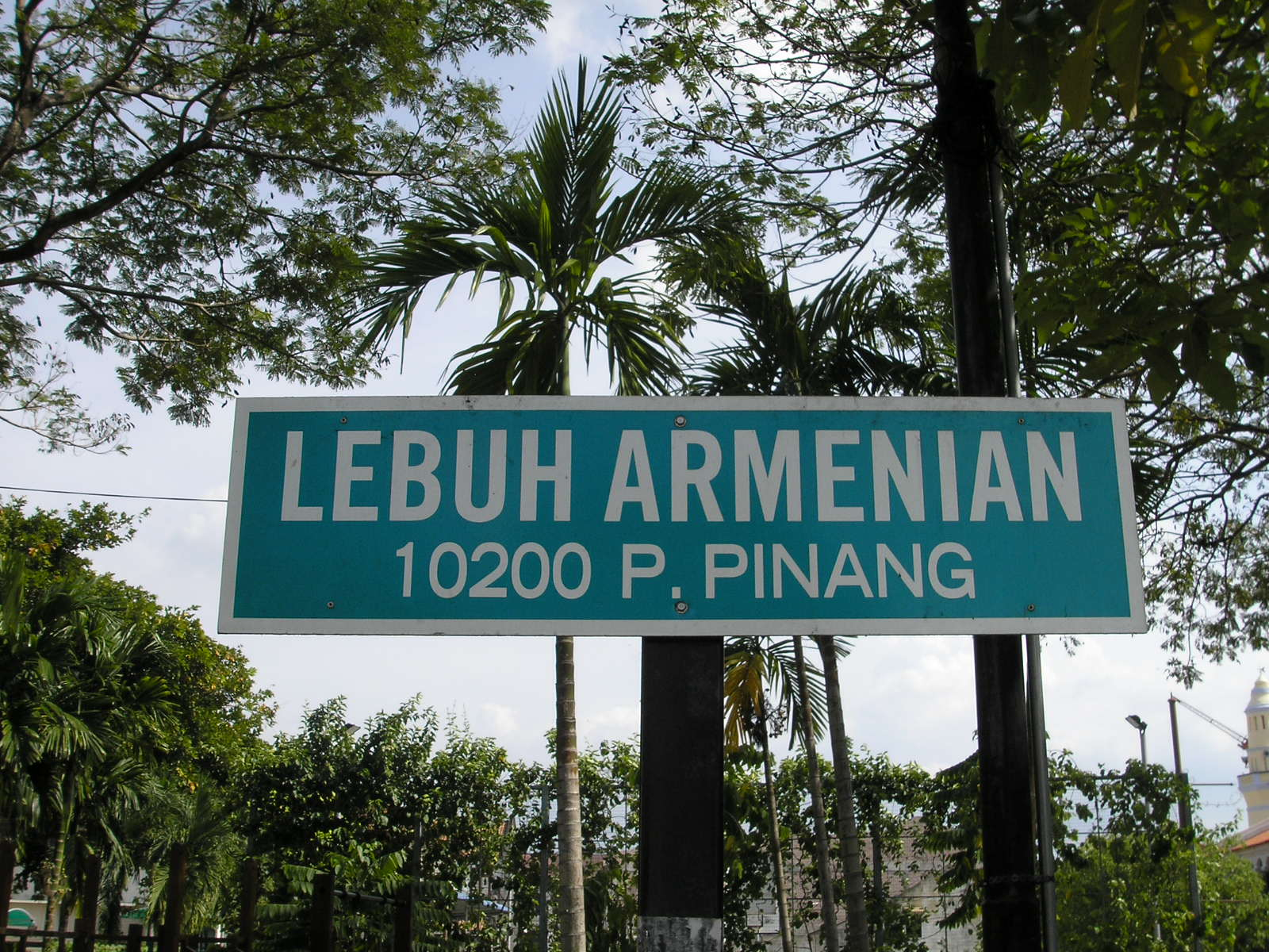 Image of the Lebuh Armenian (Armenian Street) in George Town, Penang.